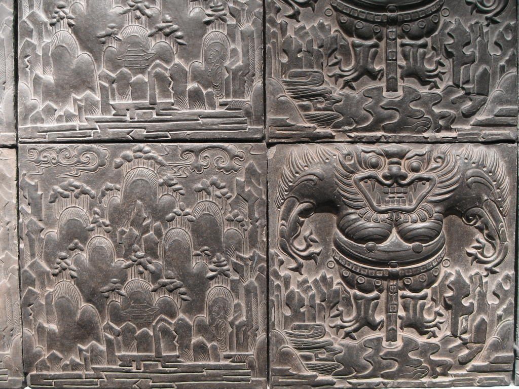 Roof tiles made in Baekje kingdom of Korea. [1]